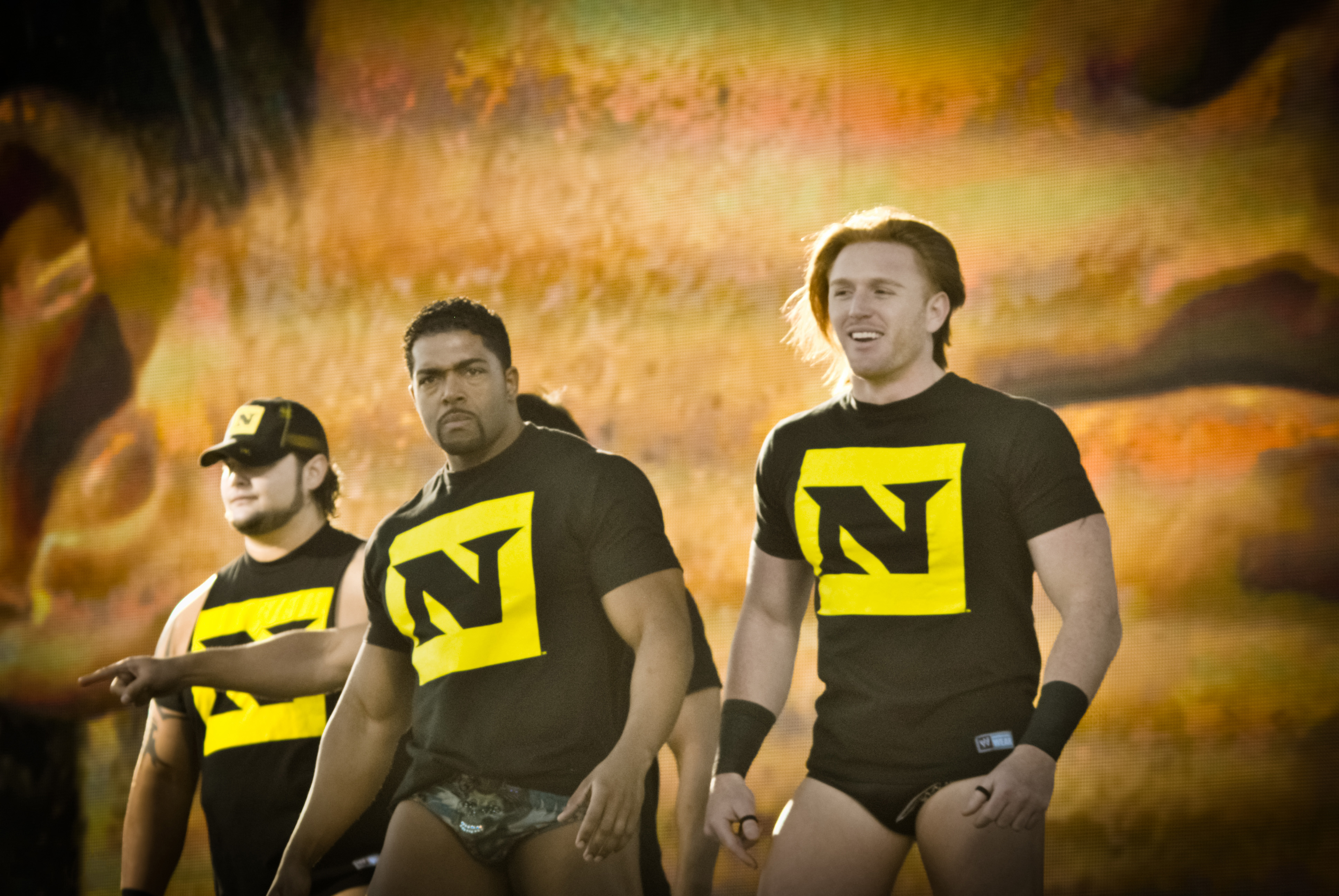 From left to right: Husky Harris, David Otunga, and Heath Slater at WWE's 2010 Tribute to the Troops show in Fort Hood, Texas, in December 2010.